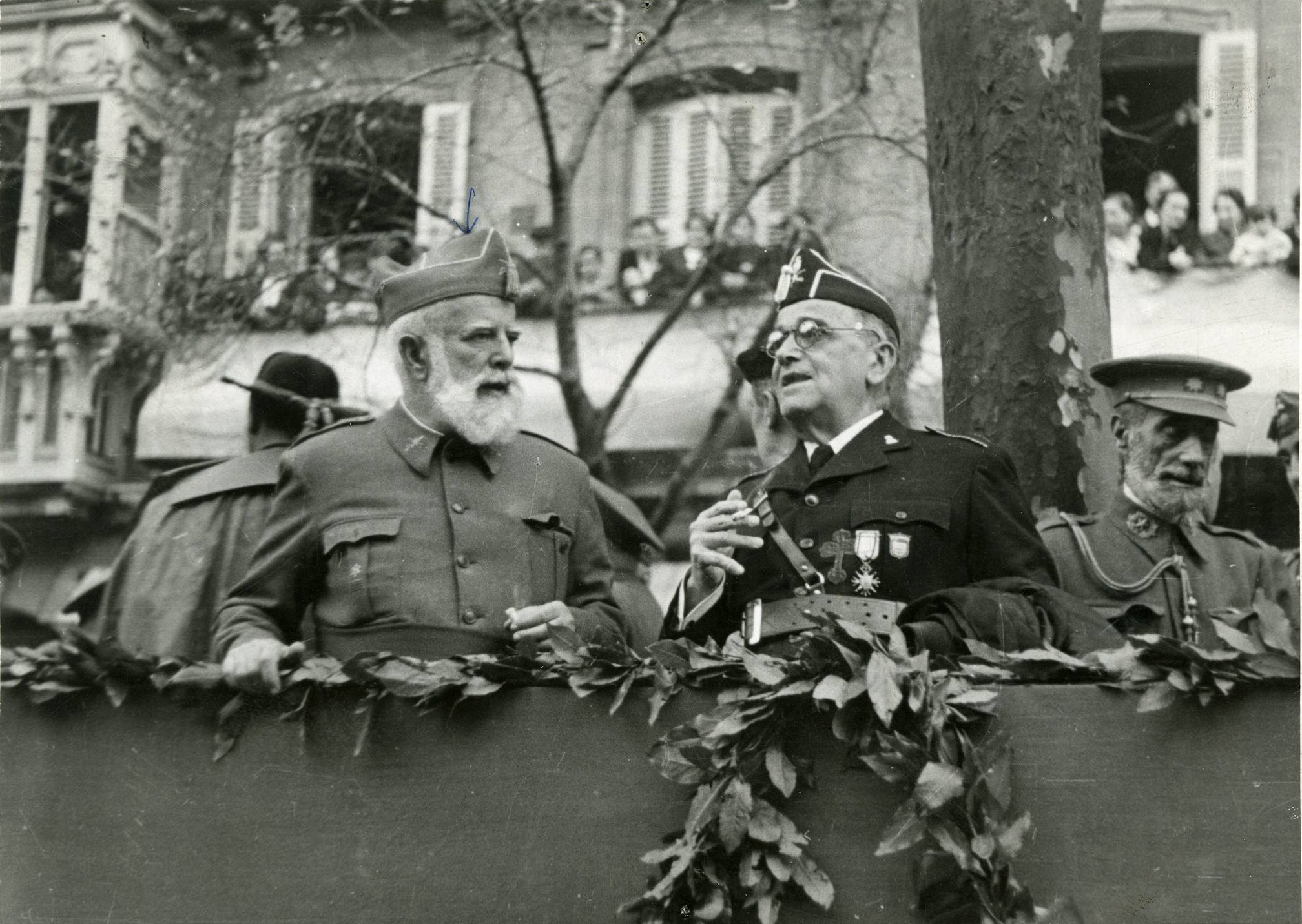 General Miguel Cabanellas and General Francisco Ibáñez with other Rebel soldiers, presiding a military parade in San Sebastian